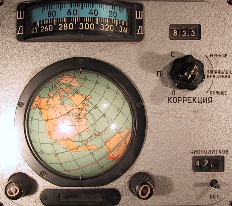 Voskhod spacecraft IMP "Globus" navigation instrument. Displays and settings (private collection)